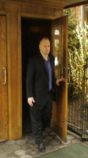 Michael Johns, health care executive and former White House speechwriter, exits Tavern on the Green, New York City, April 4, 2008.